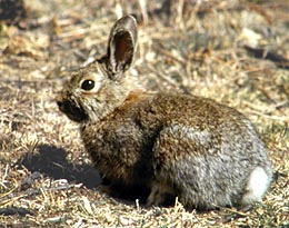 Snowshoe Hare from National Park Service.